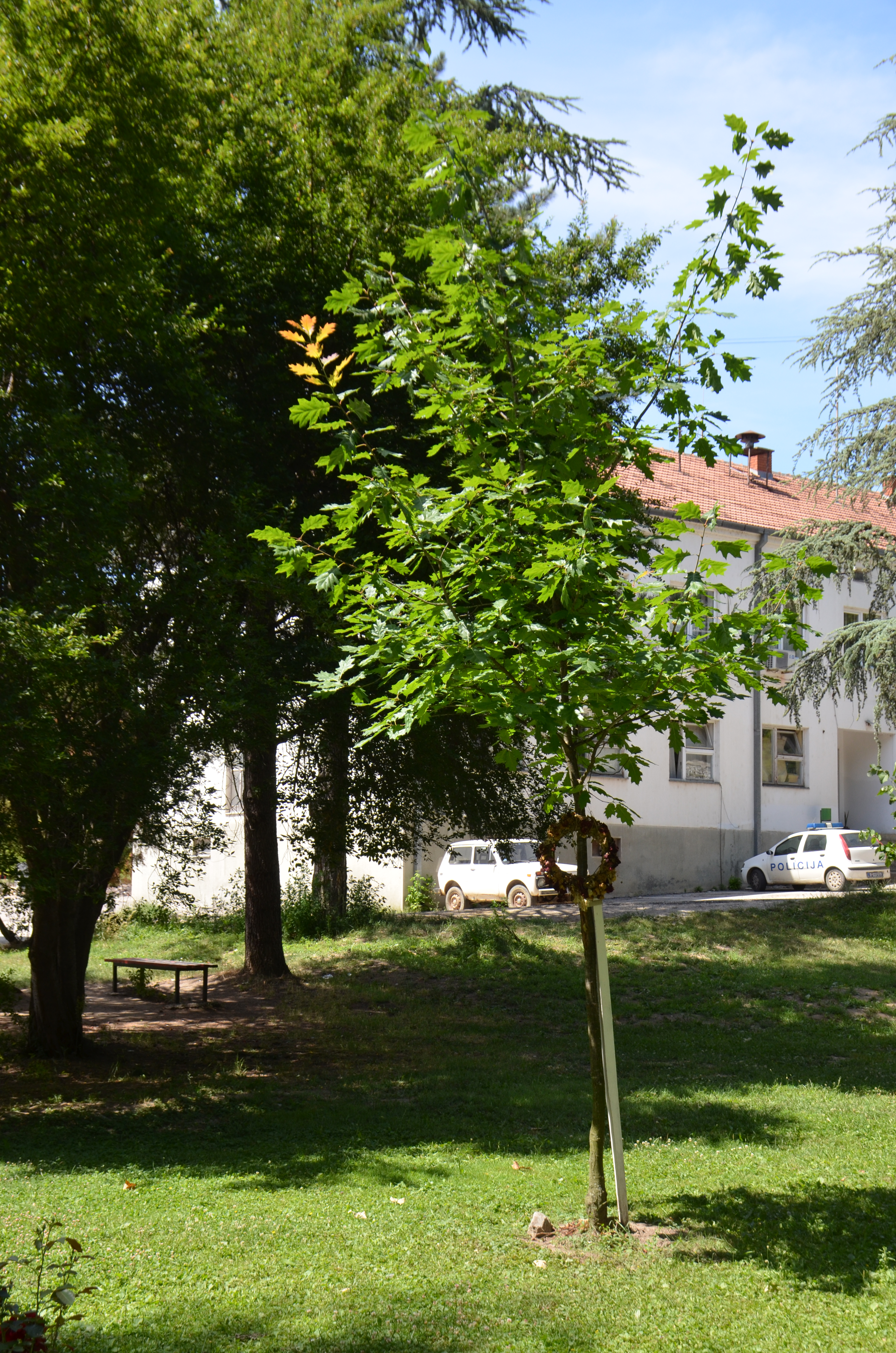 Zapis - Sacred Tree, Oak in city Rekovac, municipality Rekovac, Serbia Srpski (latinica): Zapis - hrast kod škole, grad Rekovac, Opština Rekovac, Pomoravski okrug, Srbija Српски (ћирилица): Запис - храст код школе, град Рековац, Општина Рековац, Поморавски округ, Србија